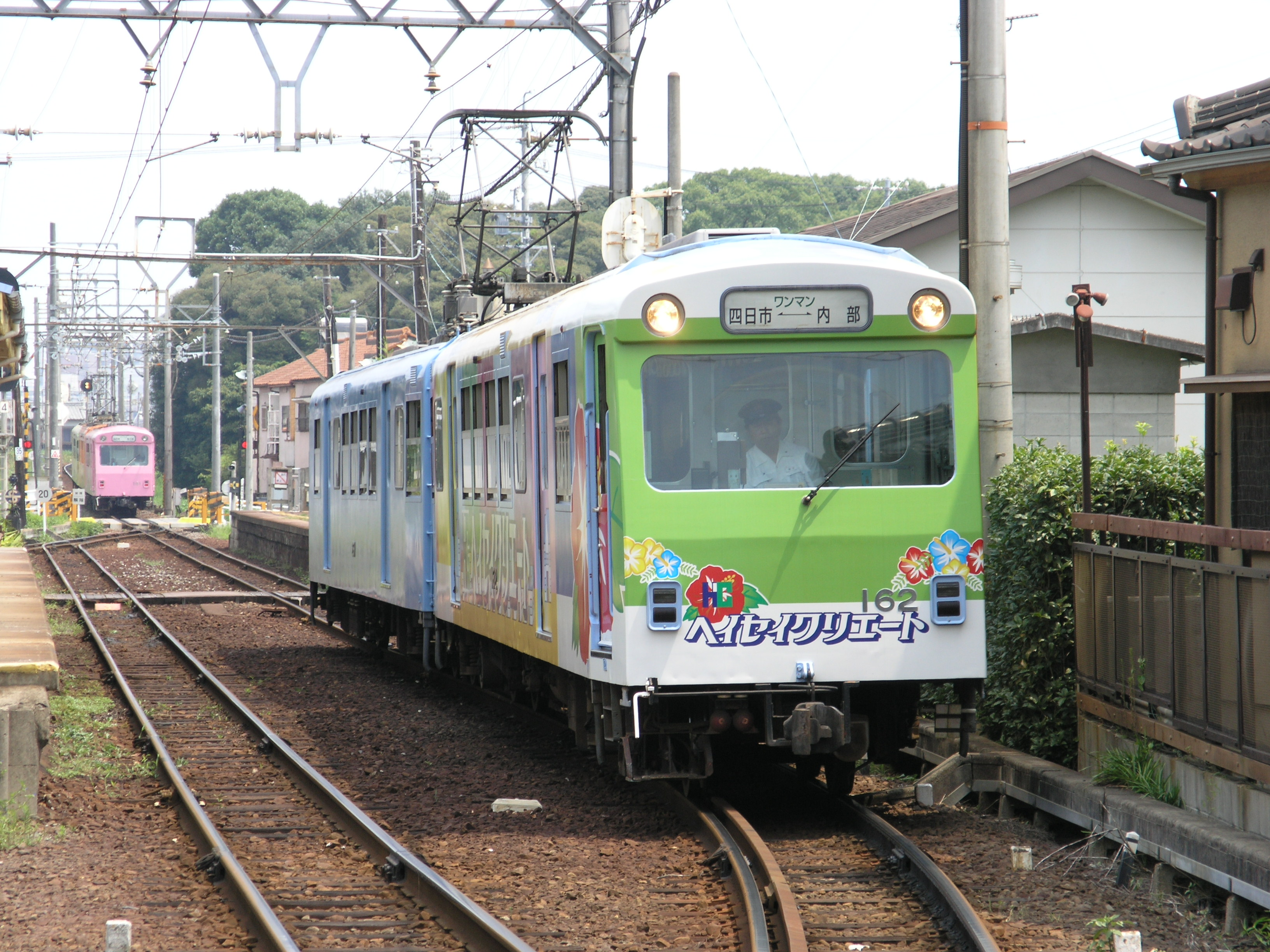 Kintetsu 260 series EMU at Hinaga Station